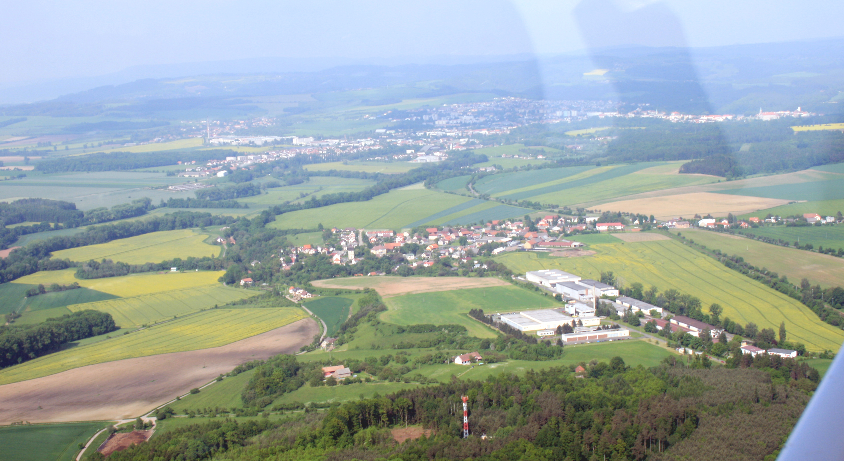 Village Černčice near of Nové Město nad Metují from air, eastern Bohemia, Czech Republic